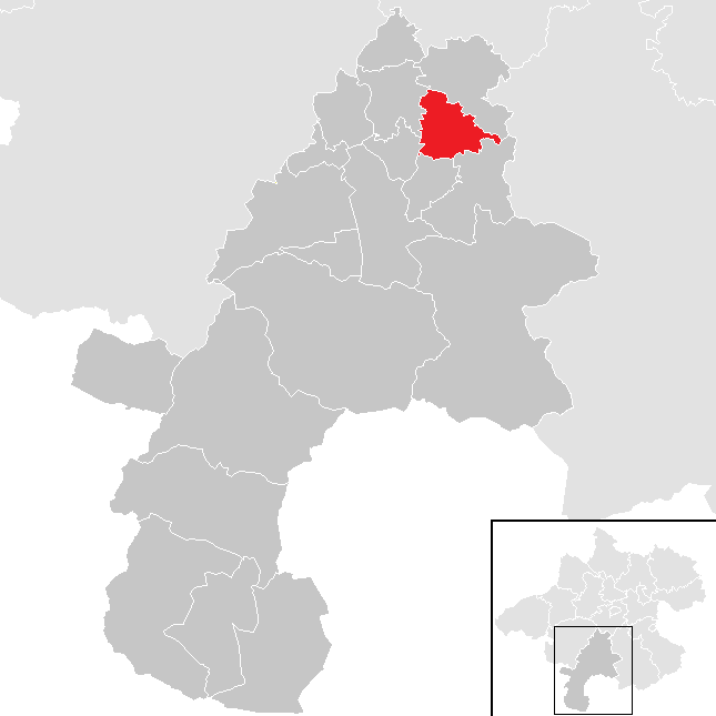 district Gmunden